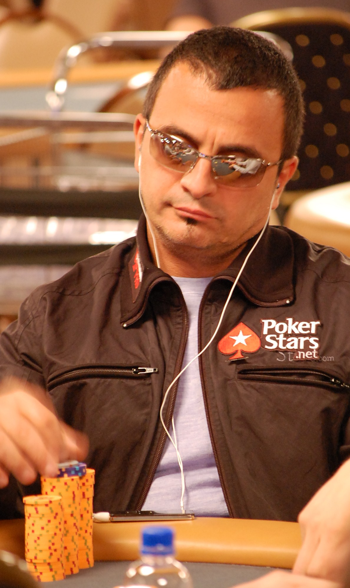 Joe Hachem at the 2008 WSOP/ check out the reflection of the dealer in his glasses. Joe is VERY focused at the table.